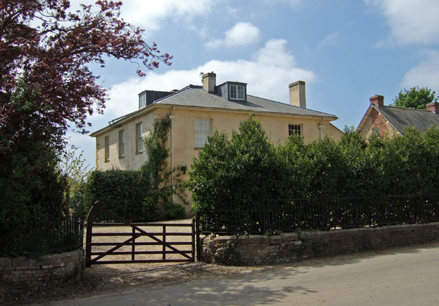 Woolston Manor Farmhouse Grade II listed, Woolston Manor Farmhouse is a square three-bayed house of two storeys built of local stone under a slate roof, dating from the beginning of the 19th century.